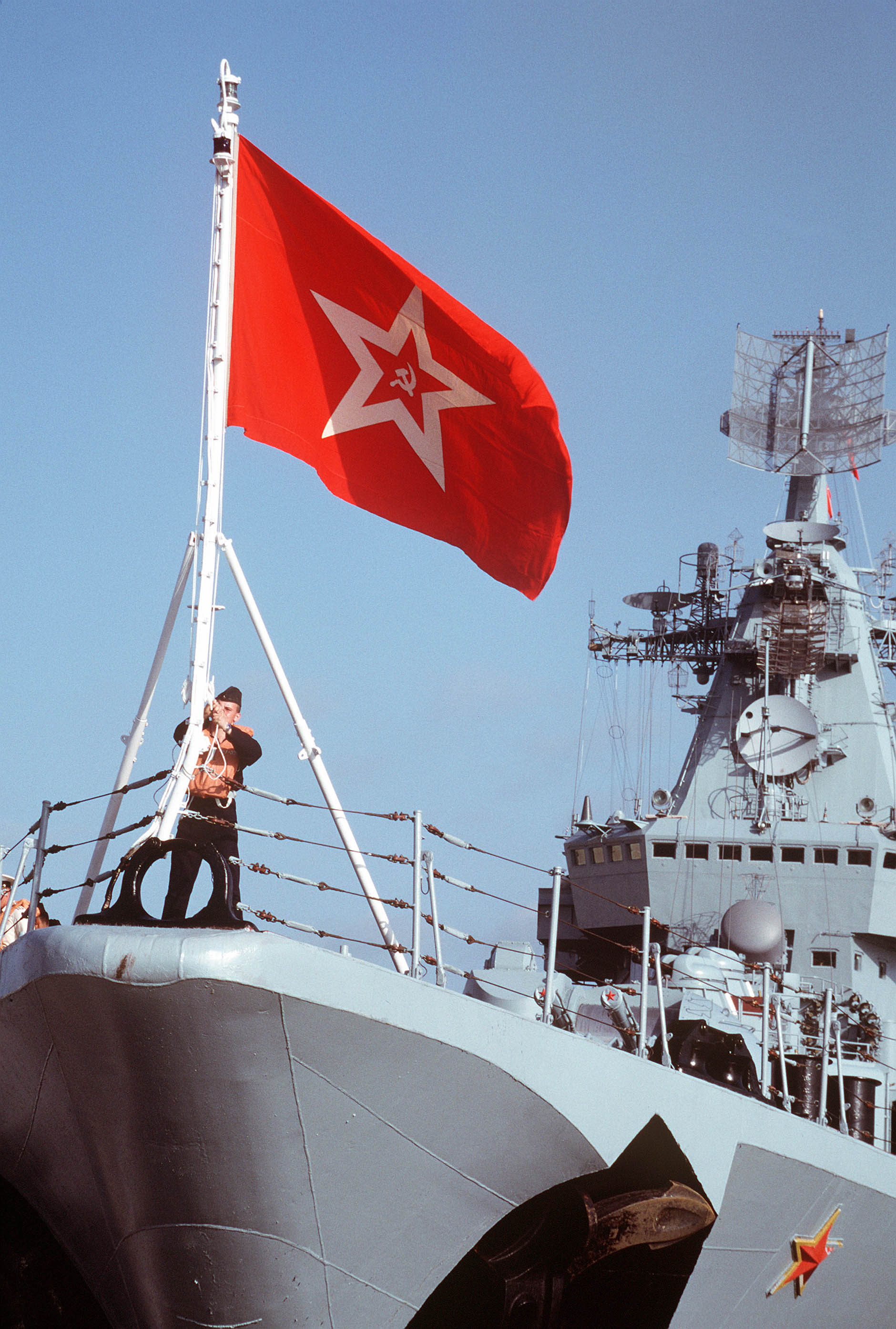 A crew member aboard the Soviet Slava class guided missile cruiser MARSHAL USTINOV rasises the Soviet naval jack as the vessel ties up in port. The MARSHAL USTINOV is one of three Soviet ships in Mayport during a four-day goodwill visit.